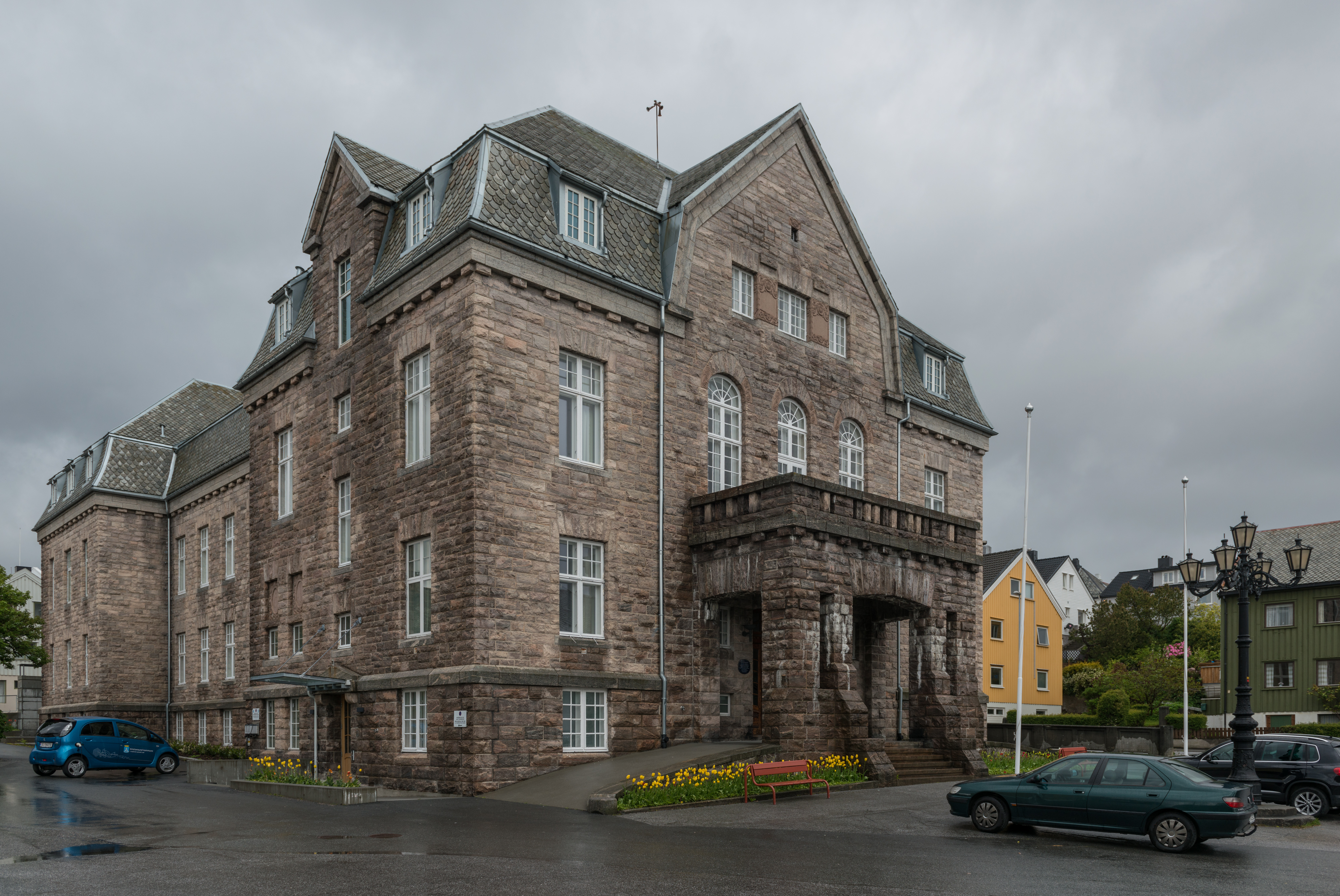 A southeast view of Festiviteten i Kristiansund